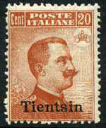 Italian stamp from Tianjin. Stamp of Kingdom of Italy - Vittorio Emanuele III 20 cent - (1916-1922)